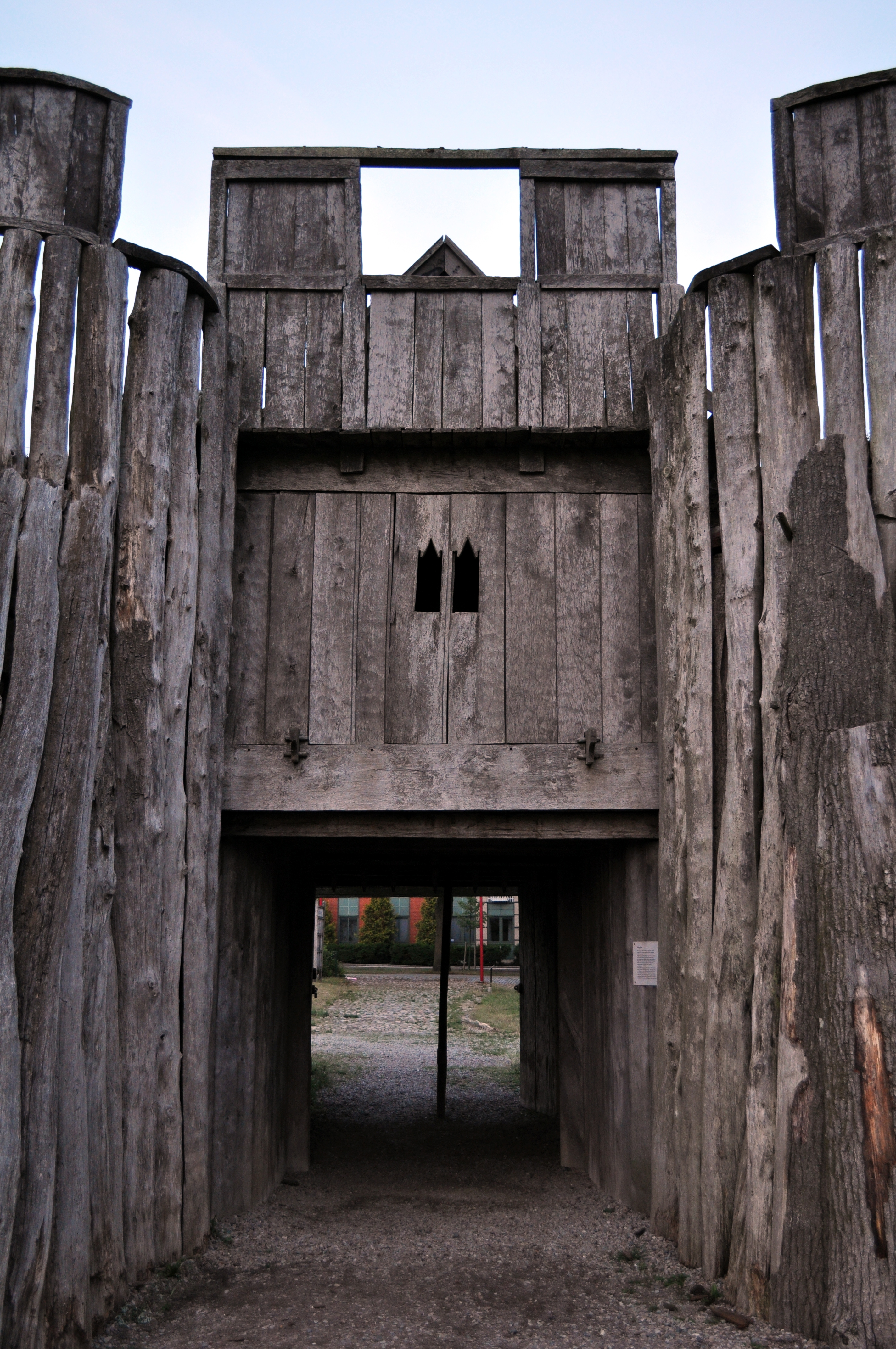 Westgate of the Trelleborg in Trelleborg (Sweden)